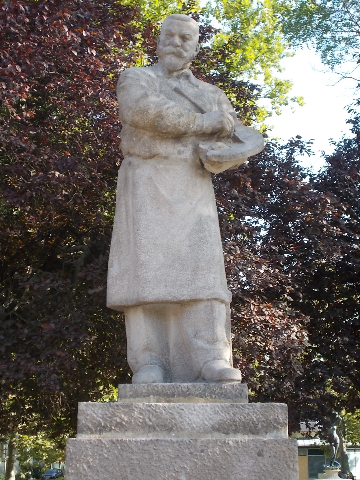 Gyula Benczúr by Géza Fekete Sr. (1942 limestone statue with cityscape significance)- Benczúr Square, Nyíregyháza, Szabolcs-Szatmár-Bereg County, Hungary.